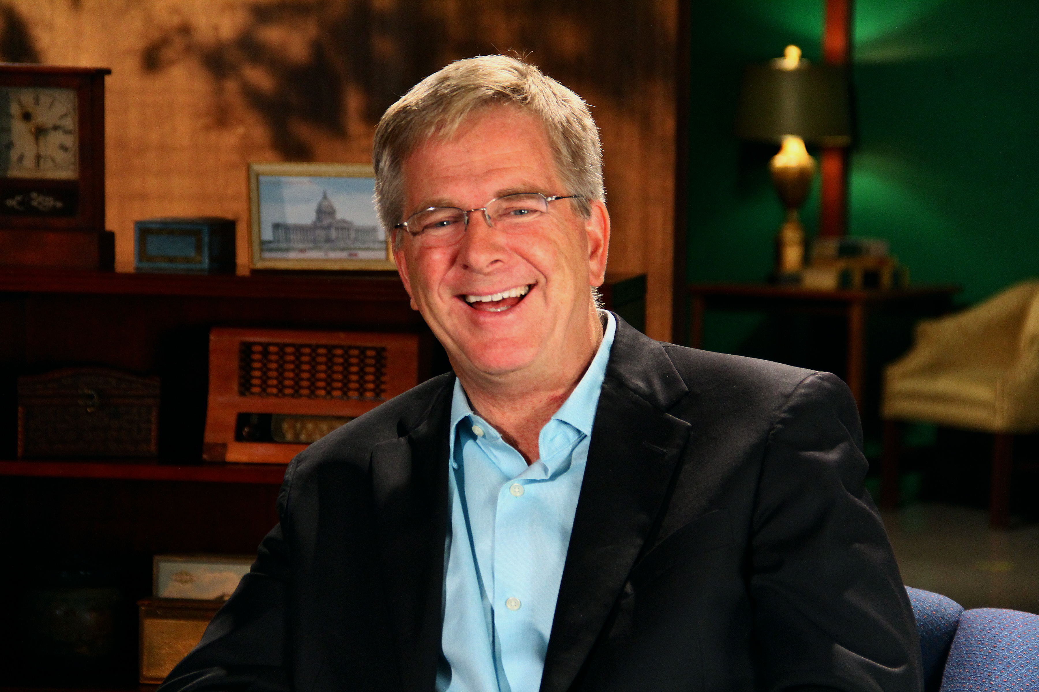 Rick Steves on the set of On The Record OETA